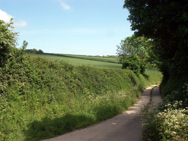 Lane and fields Lane to Lambourne with Ruan High Lanes on the skyline